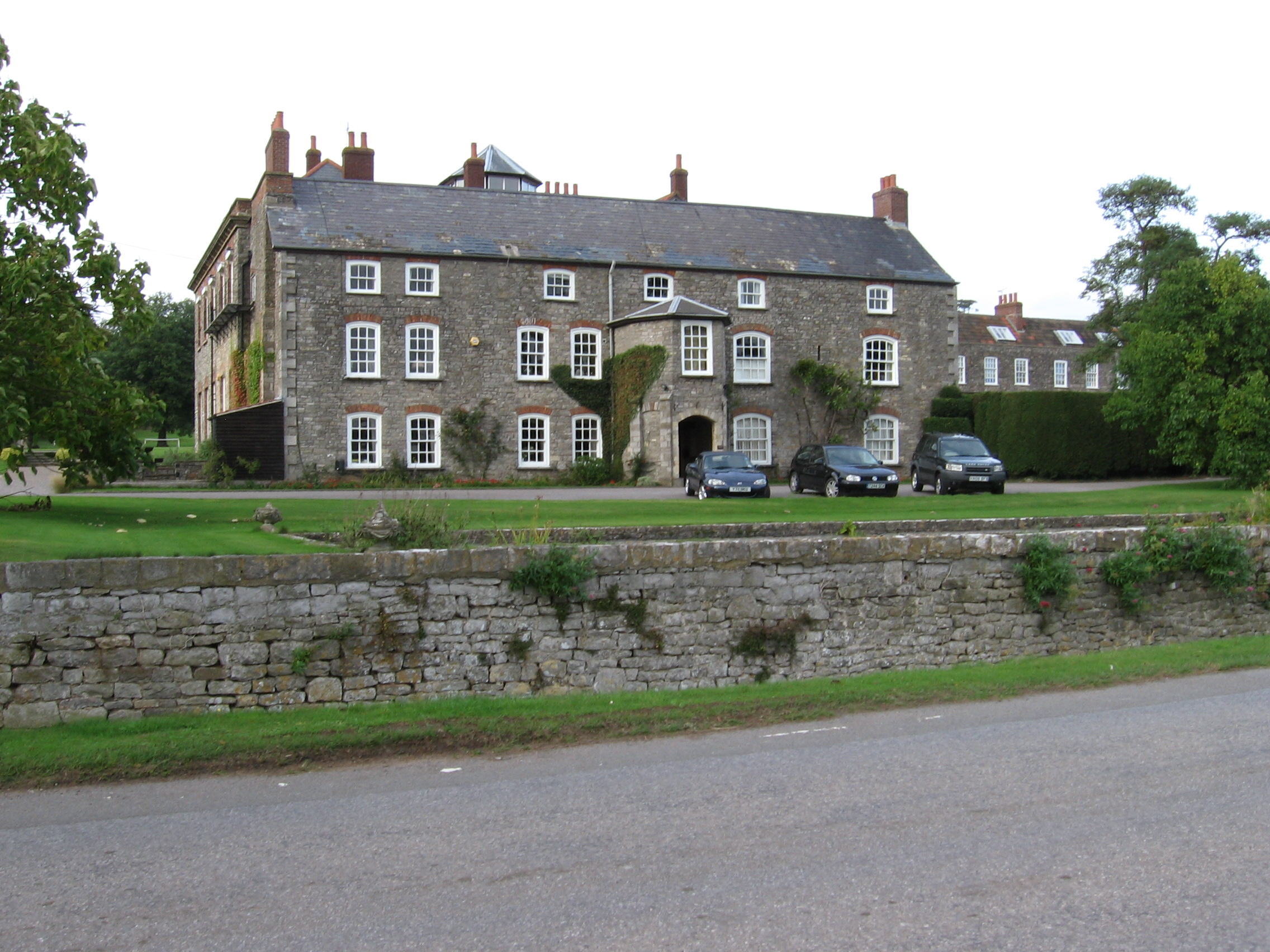 Tockington Manor School, Tockington, UK.